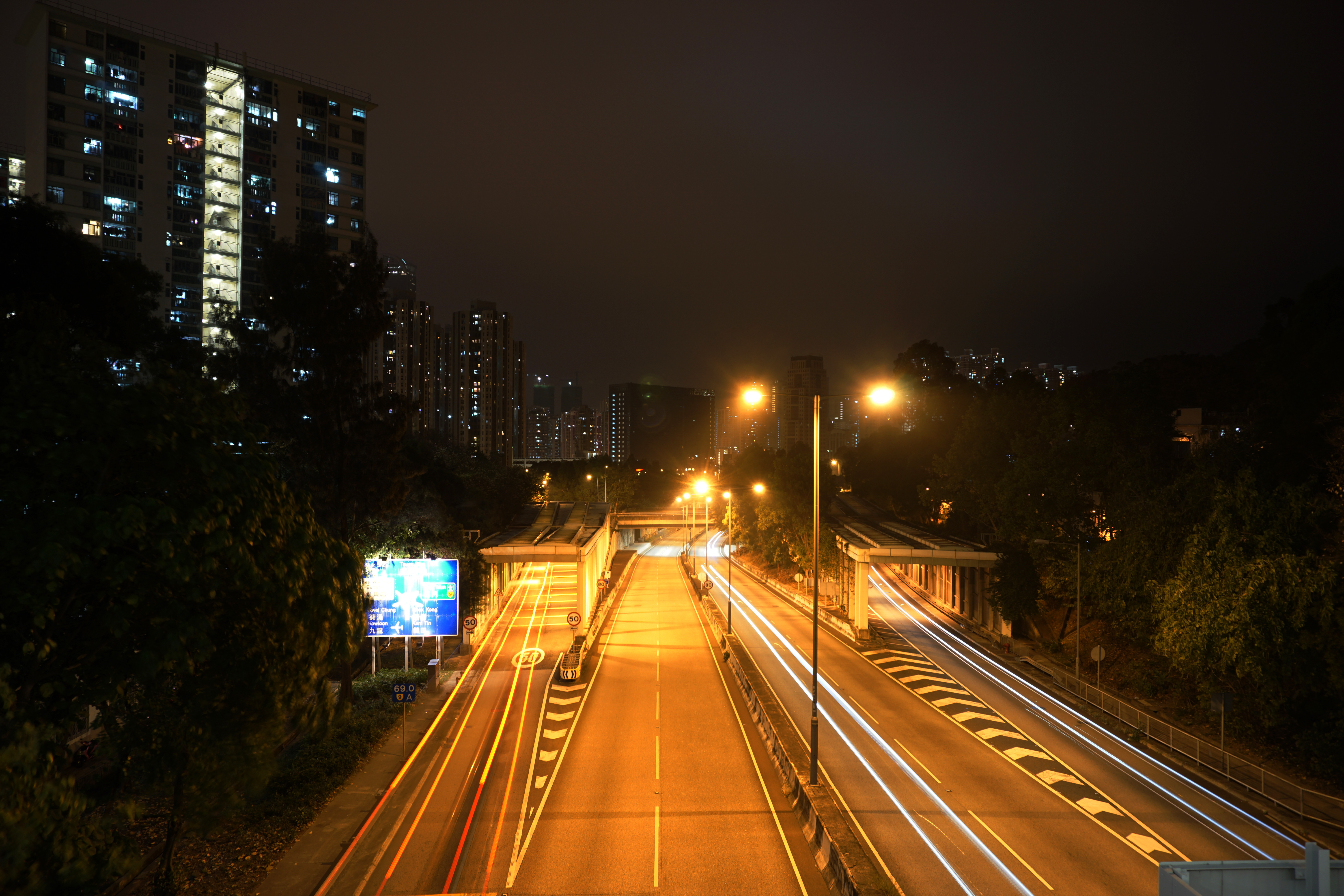 Cheung Pei Shan Road in Tsuen Wan, Hong Kong.